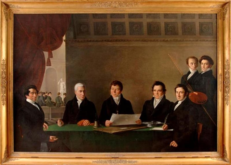 The Board of the Royal School of Useful and Visual Arts in Den Bosch, Netherlands. Oil on canvas, 184x266 cm